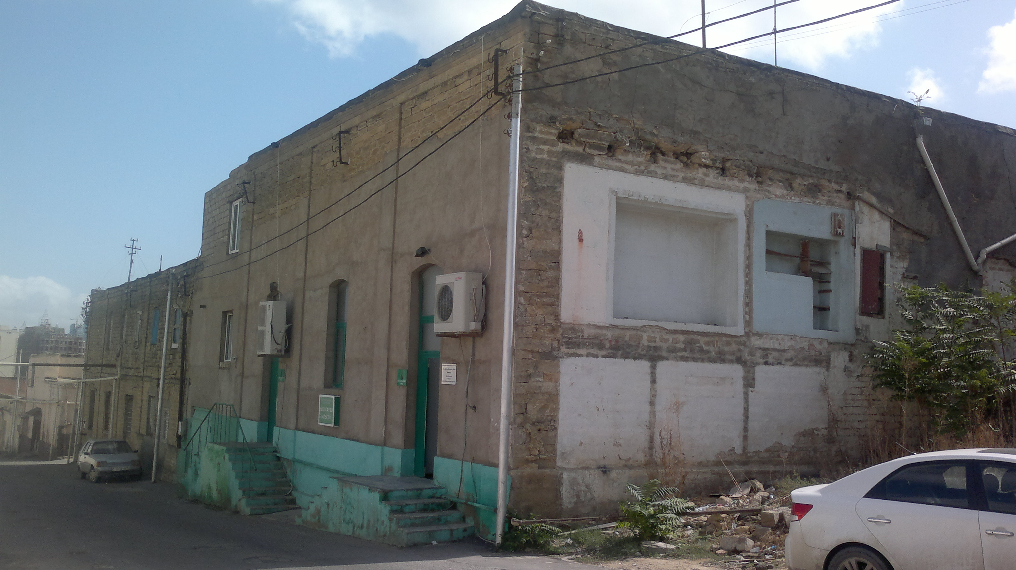 Haji Javad Mosque